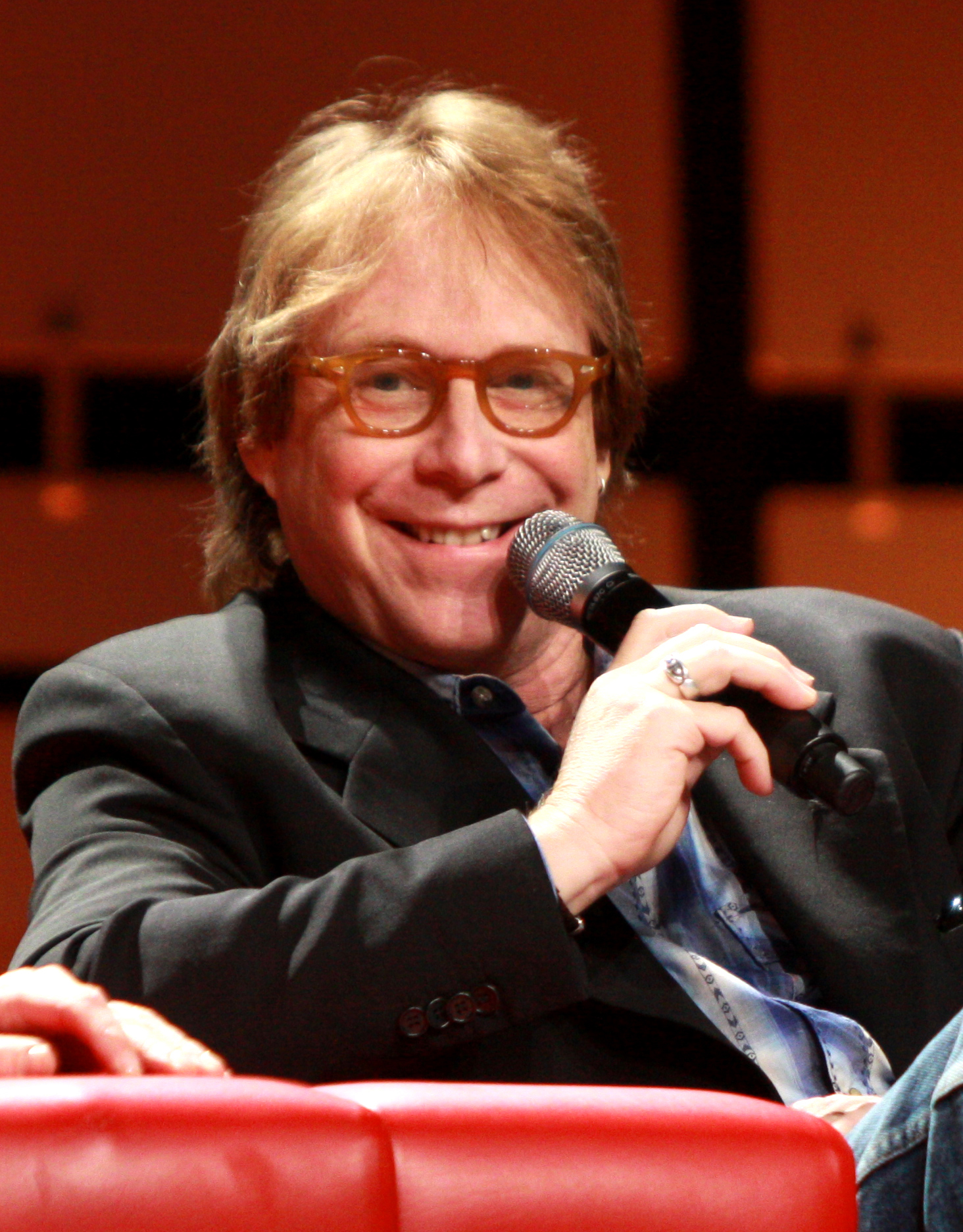 Bill Mumy at the 2013 Phoenix Comicon in Phoenix, Arizona.